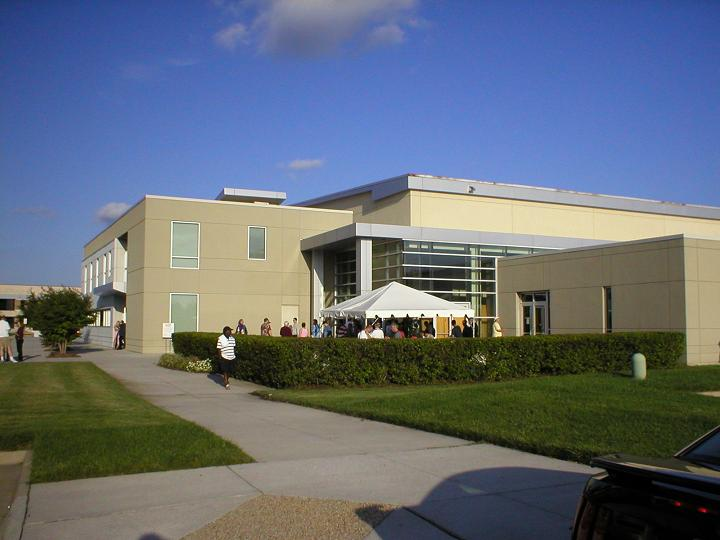 US Open Nine-ball Championship, site of the US Open Nine-ball Championship. This is my own personal photo taken in 2004, using an Olympus 2-megapixel digital camera.